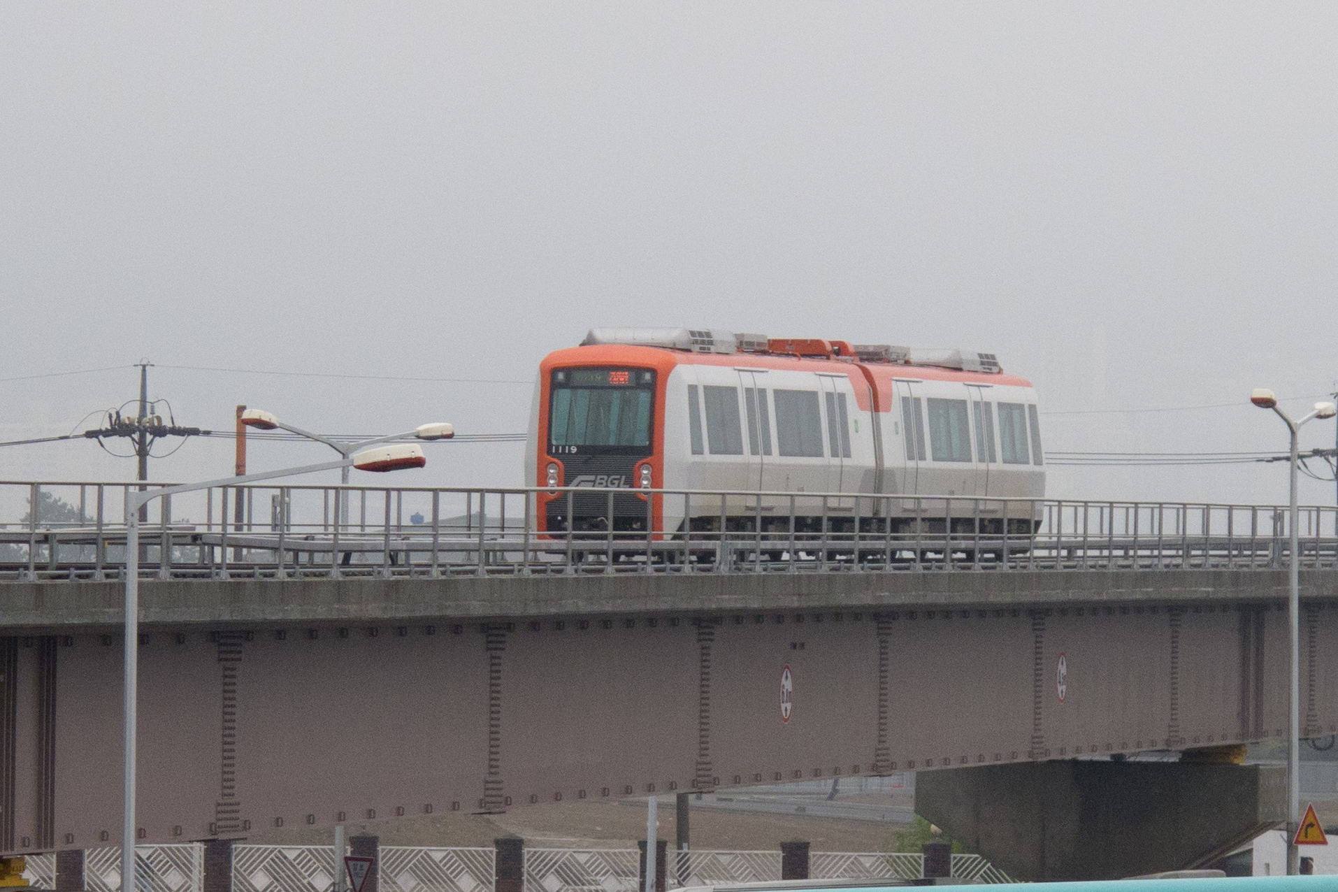 Busan-Gimhae Light Rail Transit. Photograph from Flickr; author Tom Page; license of cc-by-sa-2.0.